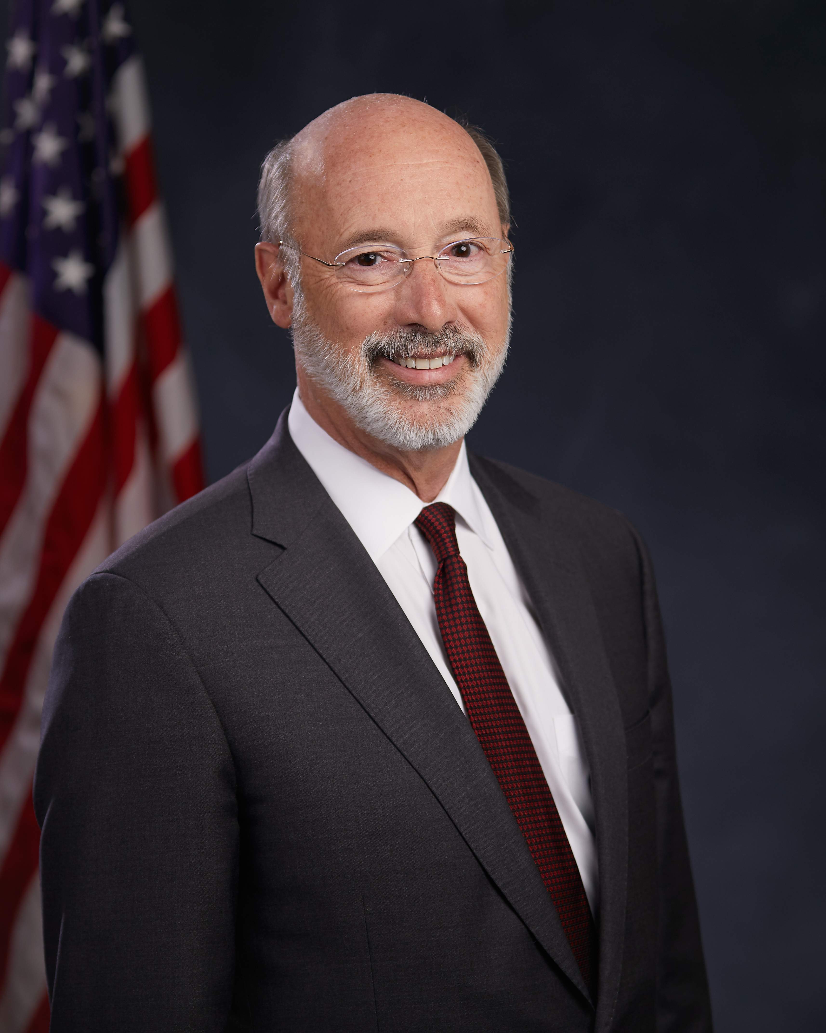 Governor Wolf Portrait